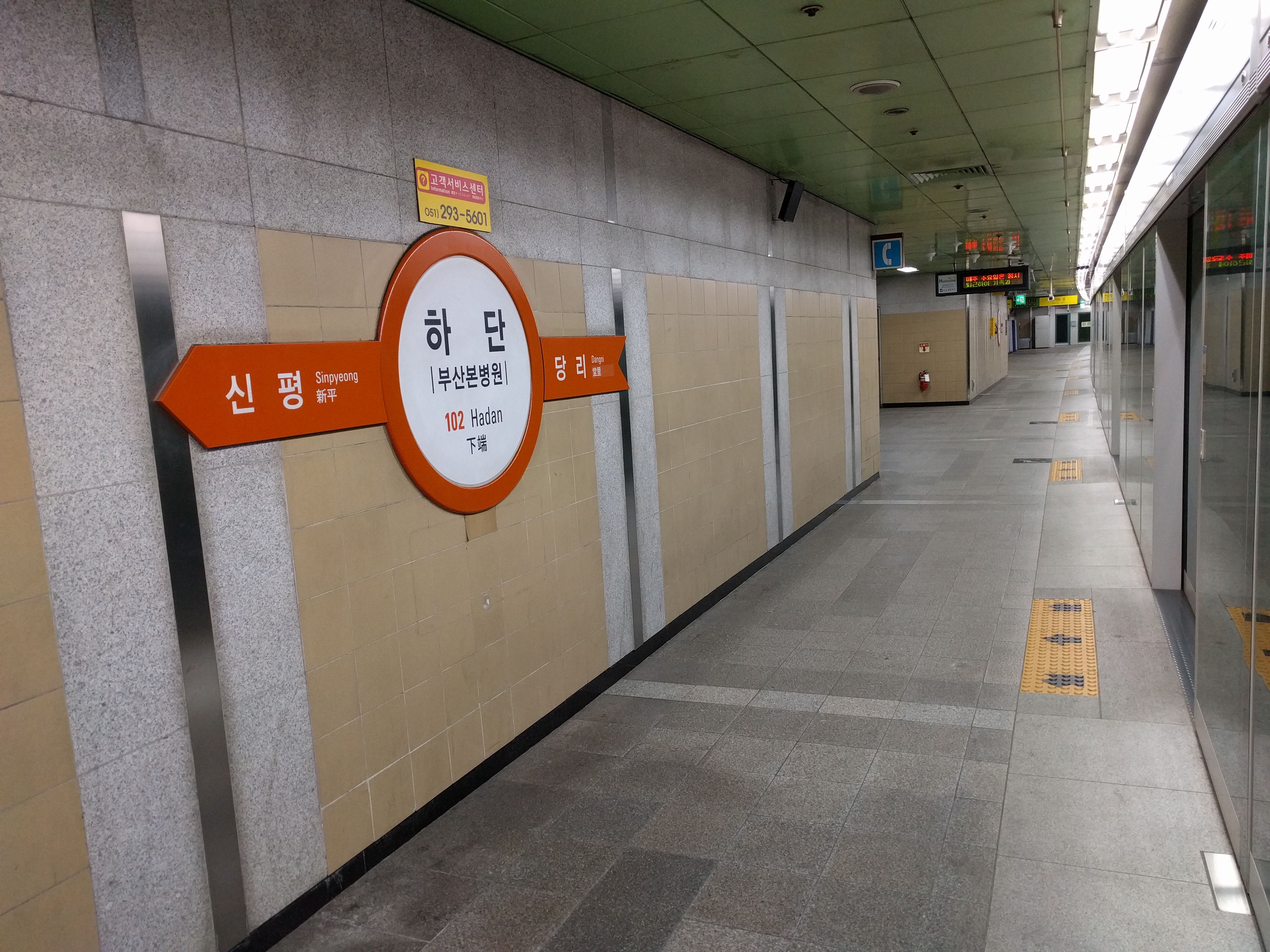 Hadan Station platform (Busan Subway Line 1)